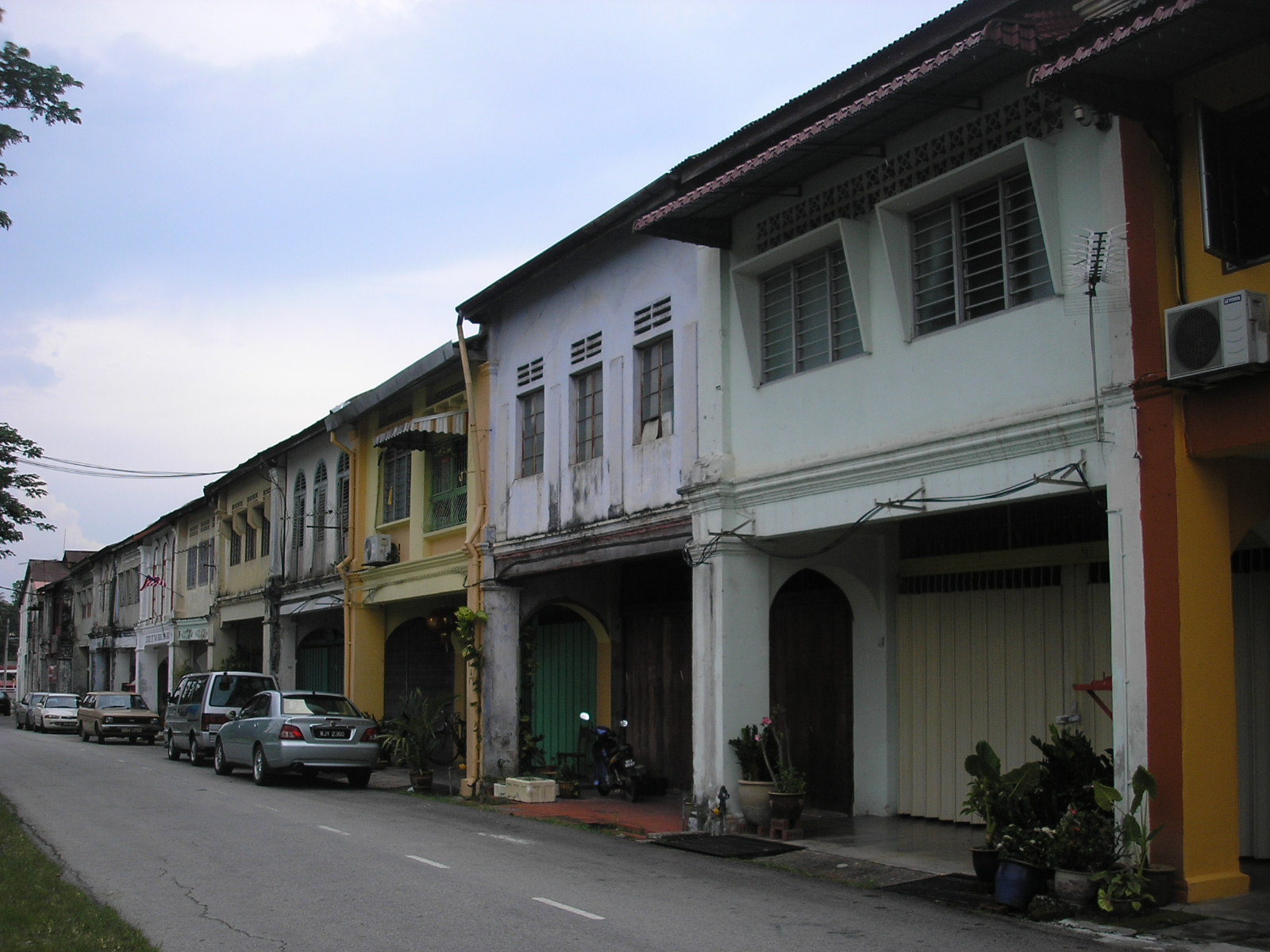 A row of pre-war terraced houses cum shophouses along a back road in Rasa, Selangor, Malaysia. Note that most of the pictured shophouses have undergone varied degrees of renovation, losing some of their original designs.